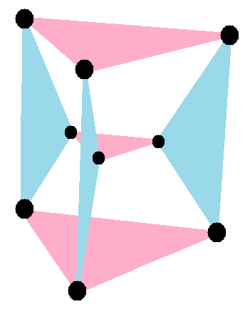 Complex polytope, 3{4}2 with filled 3-edges, perspective projection